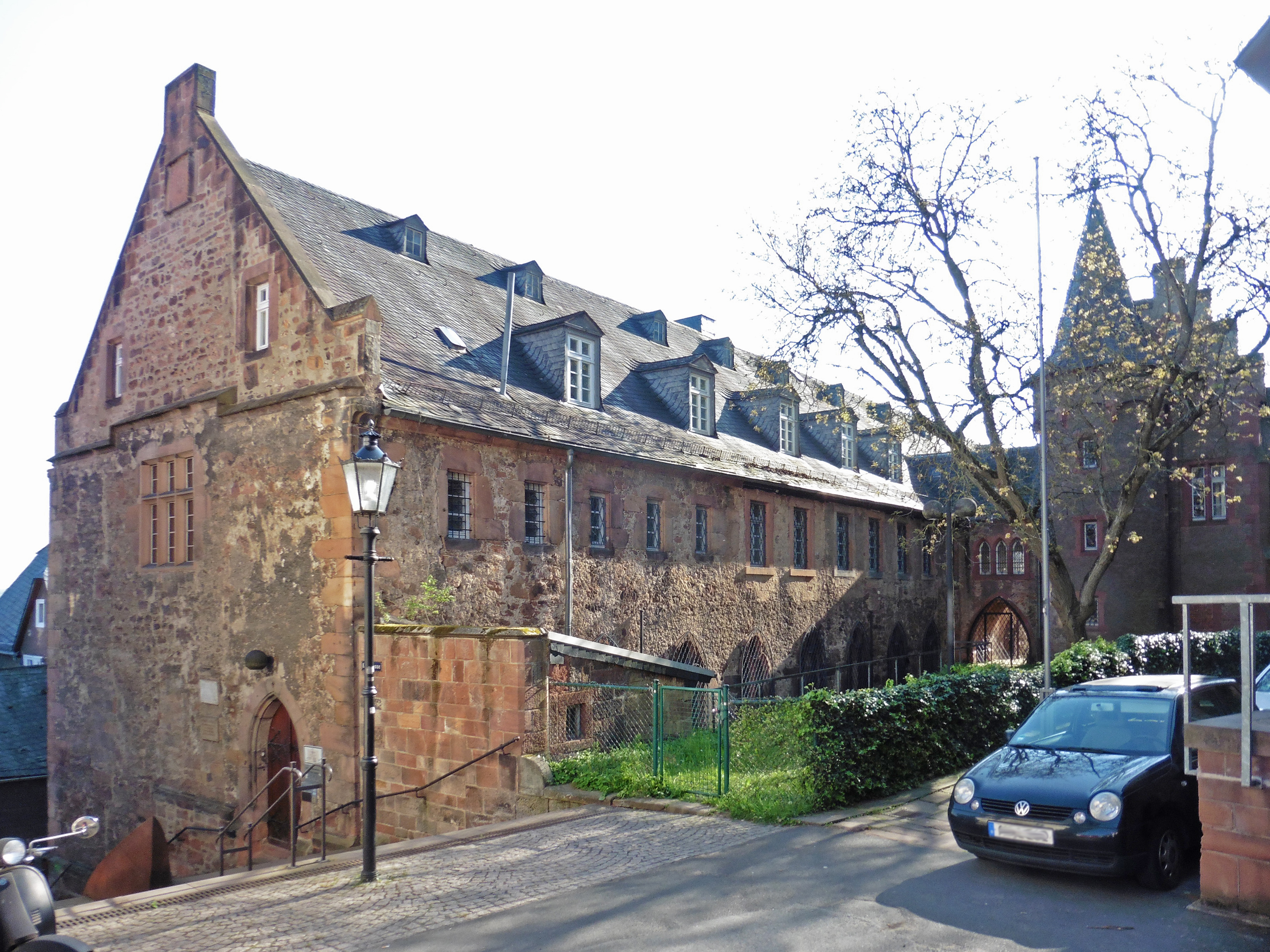 Marburg, Kugelgasse 10, Kugelhouse, seen from Northeast.